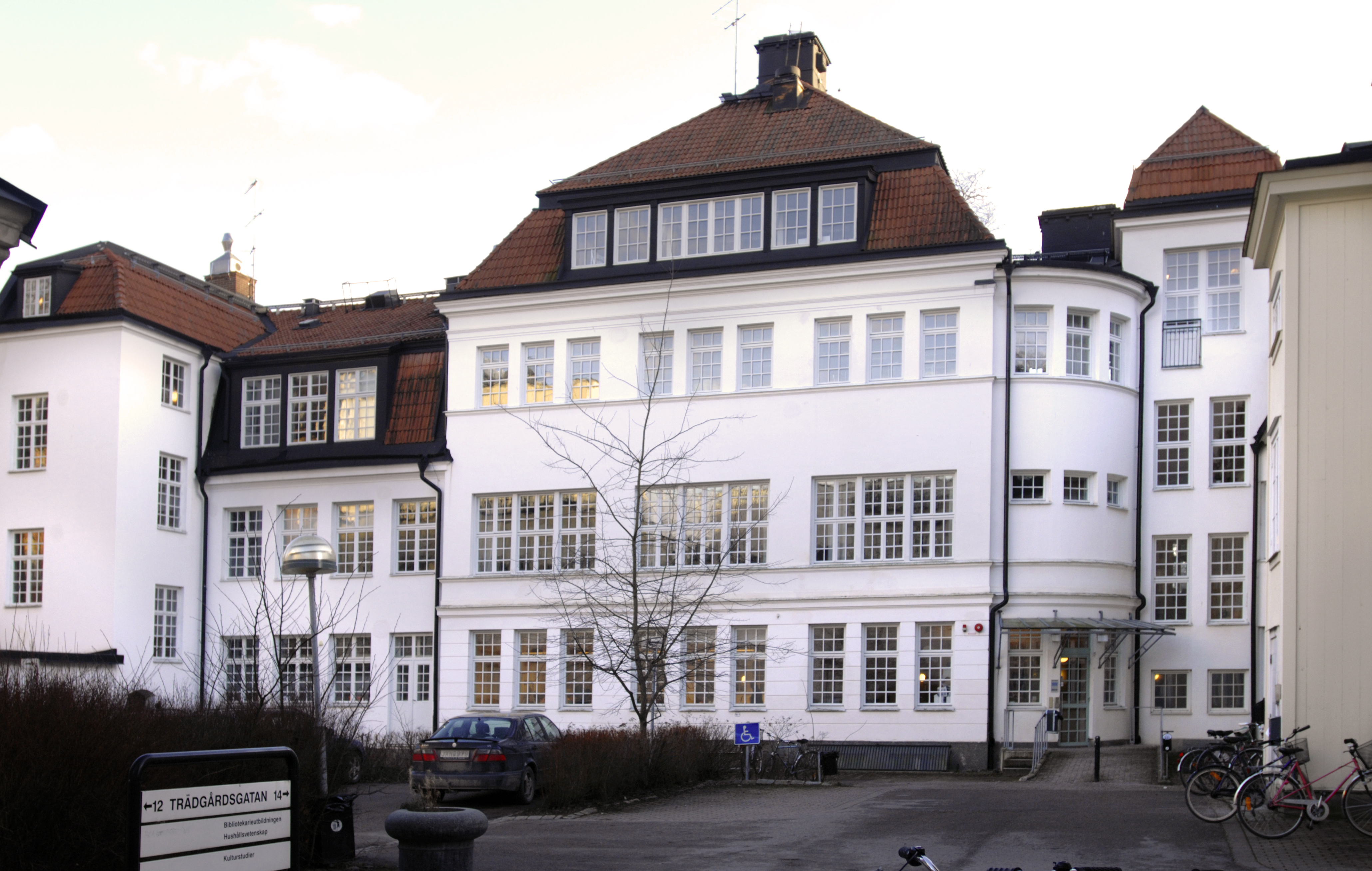 Newmaninstitut principal building, Slottsgränd 6, 753 09 Uppsala.